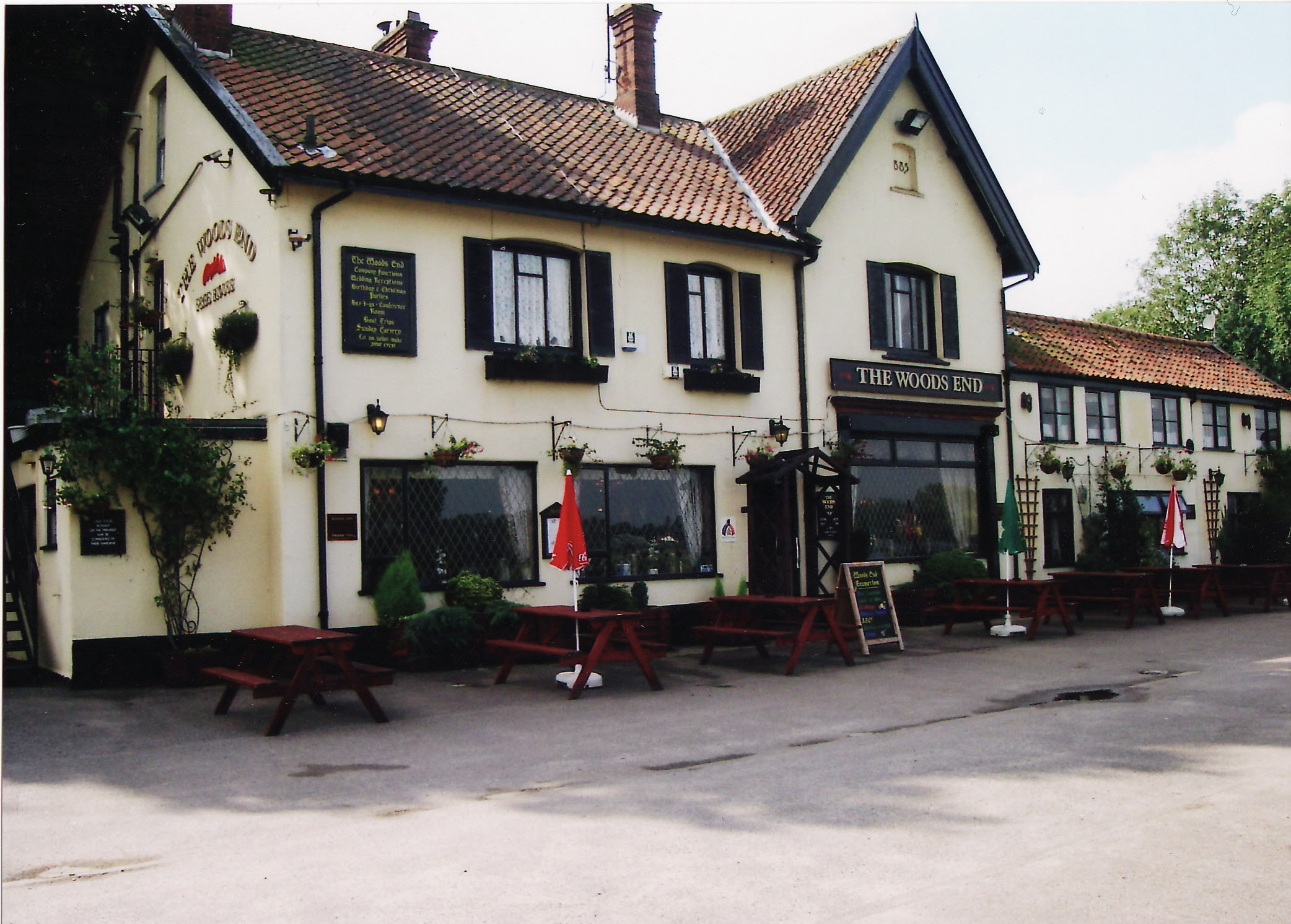 Picture of the Woods End Inn